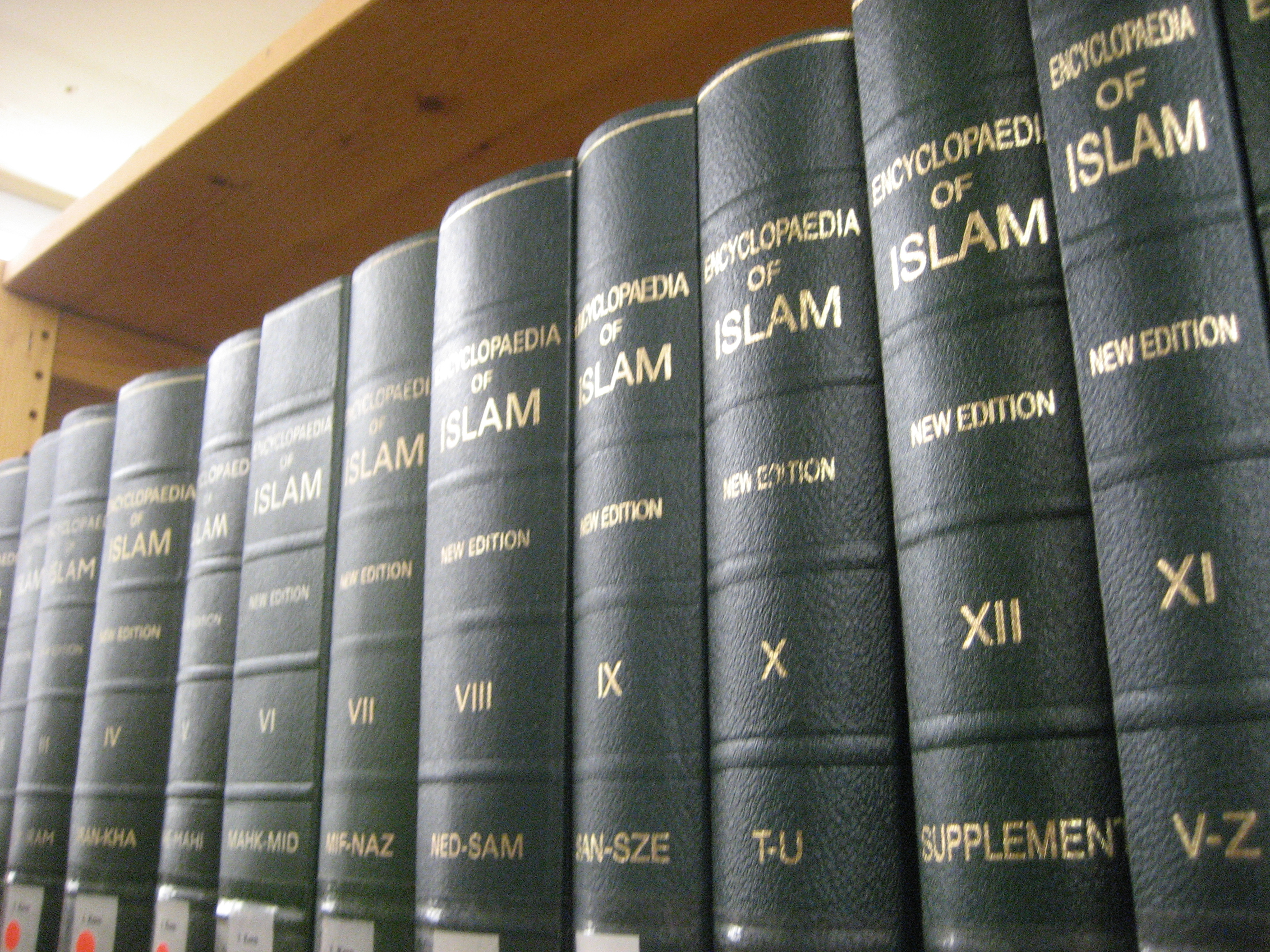 Encyclopaedia of Islam, 2nd ed, Leiden, Brill Publishers, 1960-2005. Library set.